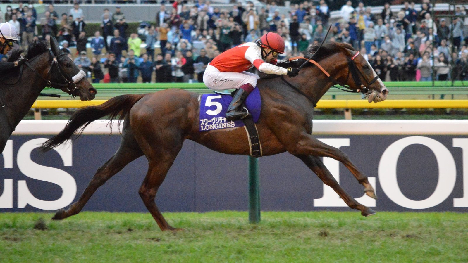 Japanese race horse Suave Richard at Tokyo racecourse. Tokyo (JPN) 24 Nov 2019Japan Cup (Grade 1) (3yo+) (Turf) 1m4f Yielding RankHorse NameOddsAgeWgtJockeyTrainer1stSuave Richard (JPN)41/10H557Oisin MurphyYasushi Shono2ndCurren Bouquetd'or (JPN)29/1F353Akihide TsumuraSakae KuniedaOthers are omitted. (15 horses entered in a race.)